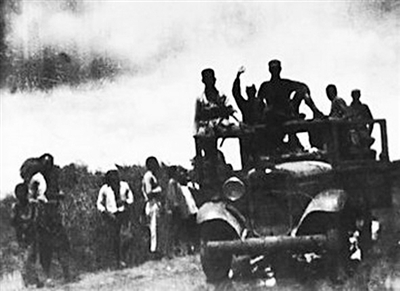 Chinese 35th Army during the Battle of West Suiyuan against the mongols and japanese.